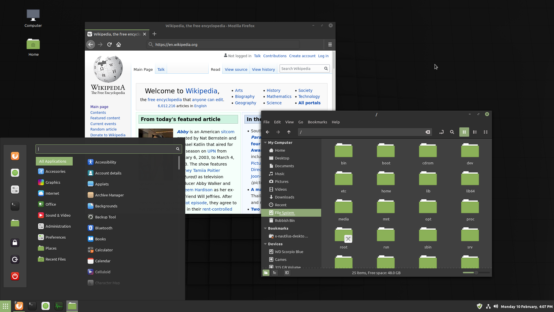 Cinnamon 4.4.8 on Linux Mint with Mozilla Firefox and Nemo running and showing the menu